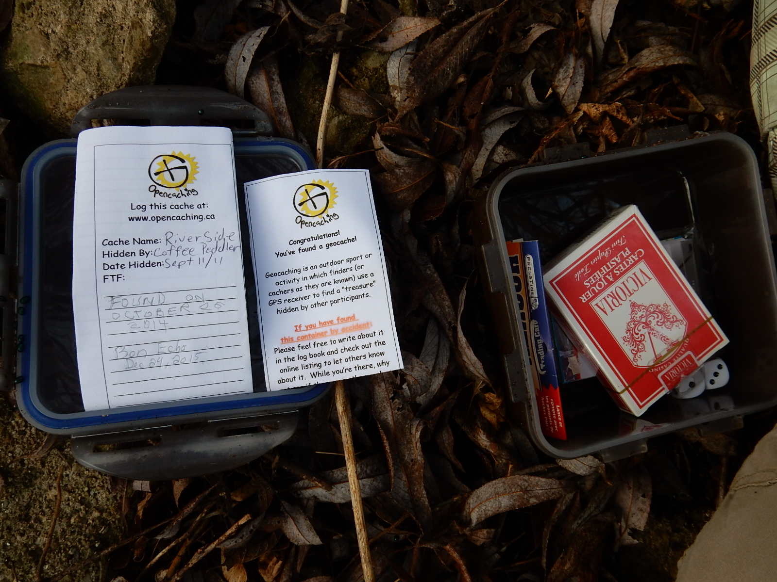 Riverside - OU0329 to view the cache listing at Opencaching North America